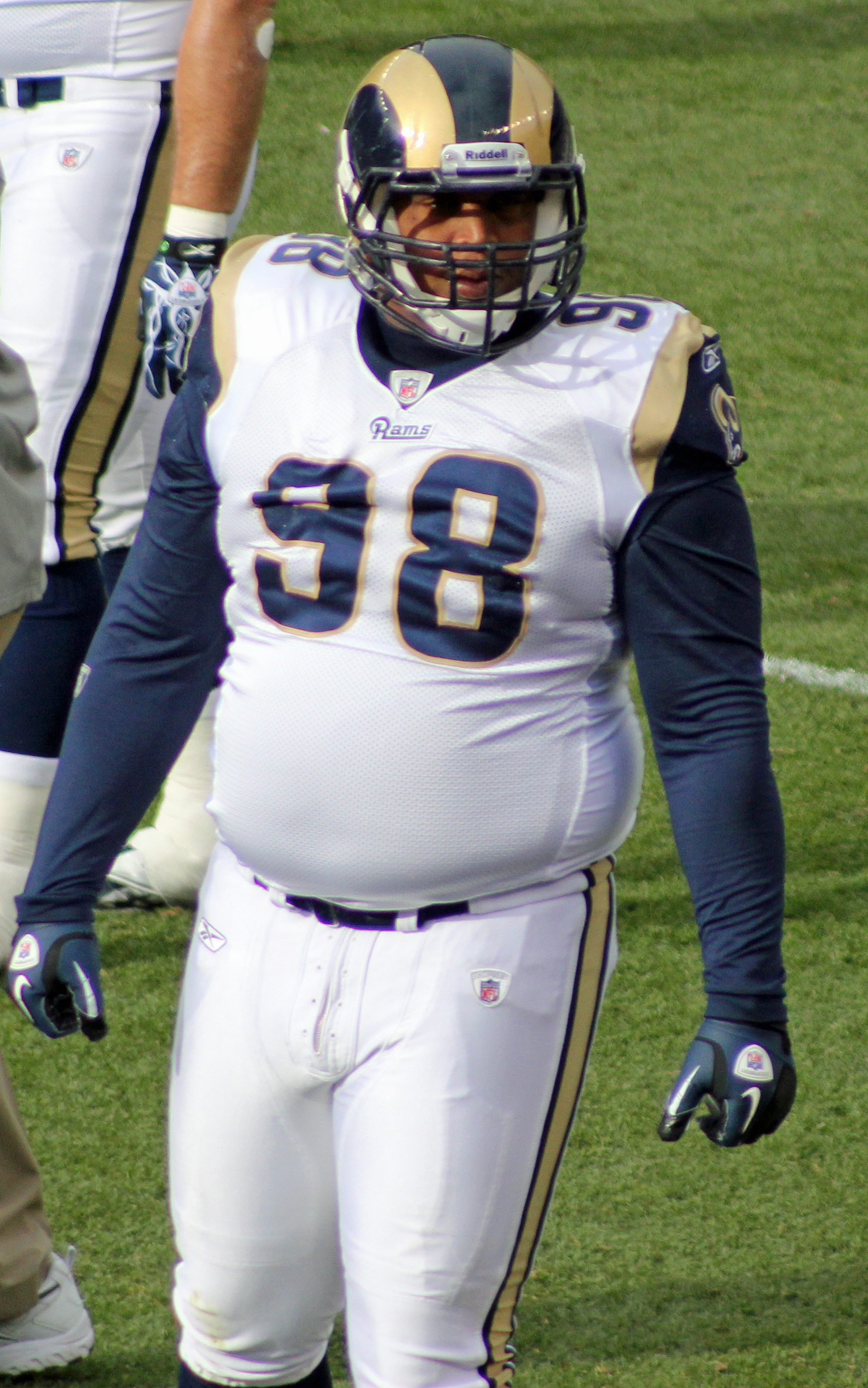 Fred Robbins, a player on the Saint Louis Rams American football team.